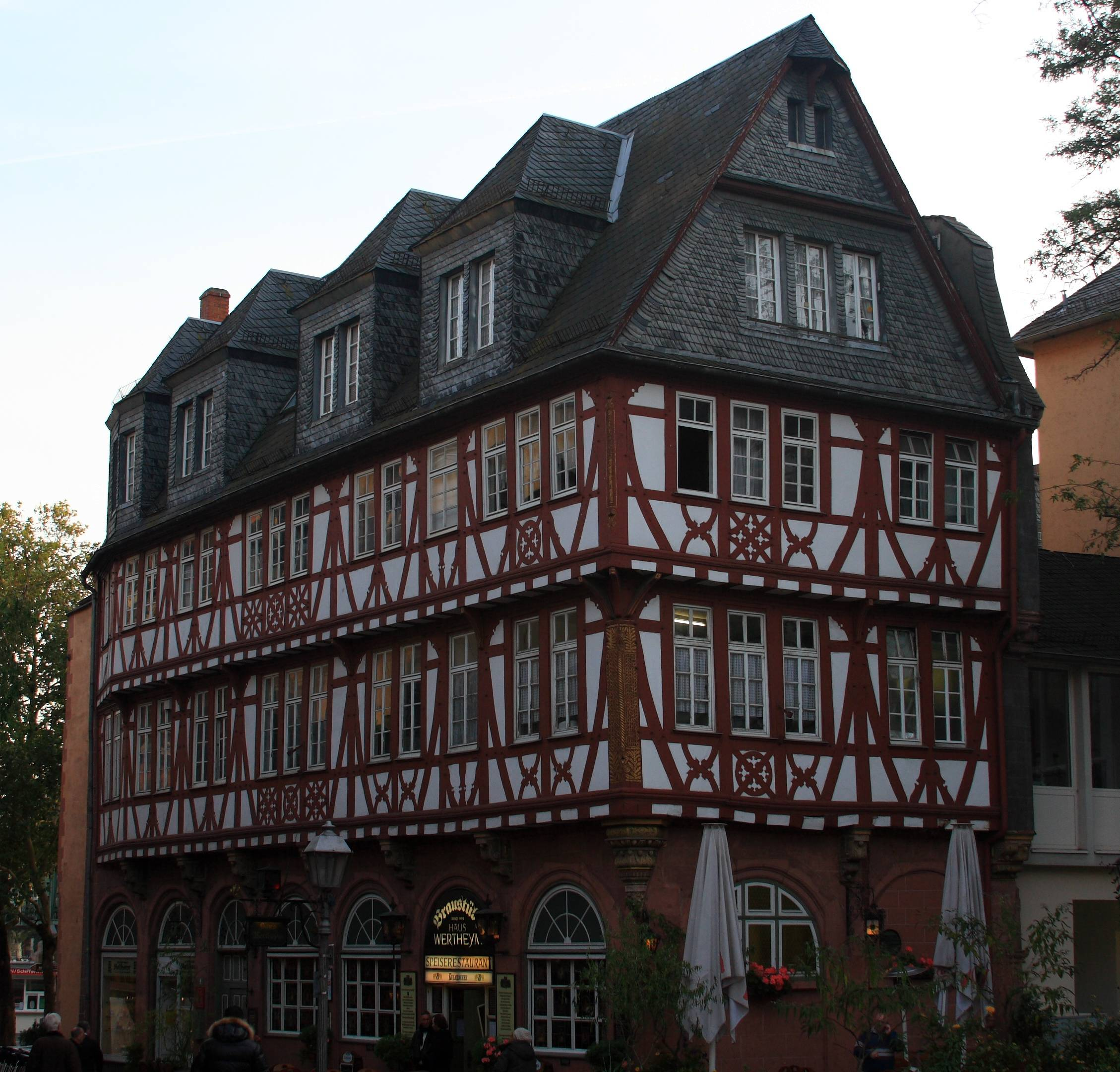 An old half timbered house in Romerberg in Frankfurt